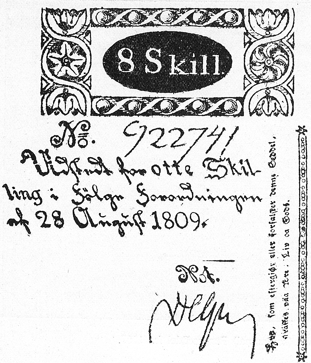 Banknote from 1809, issued by the Danish Crown.